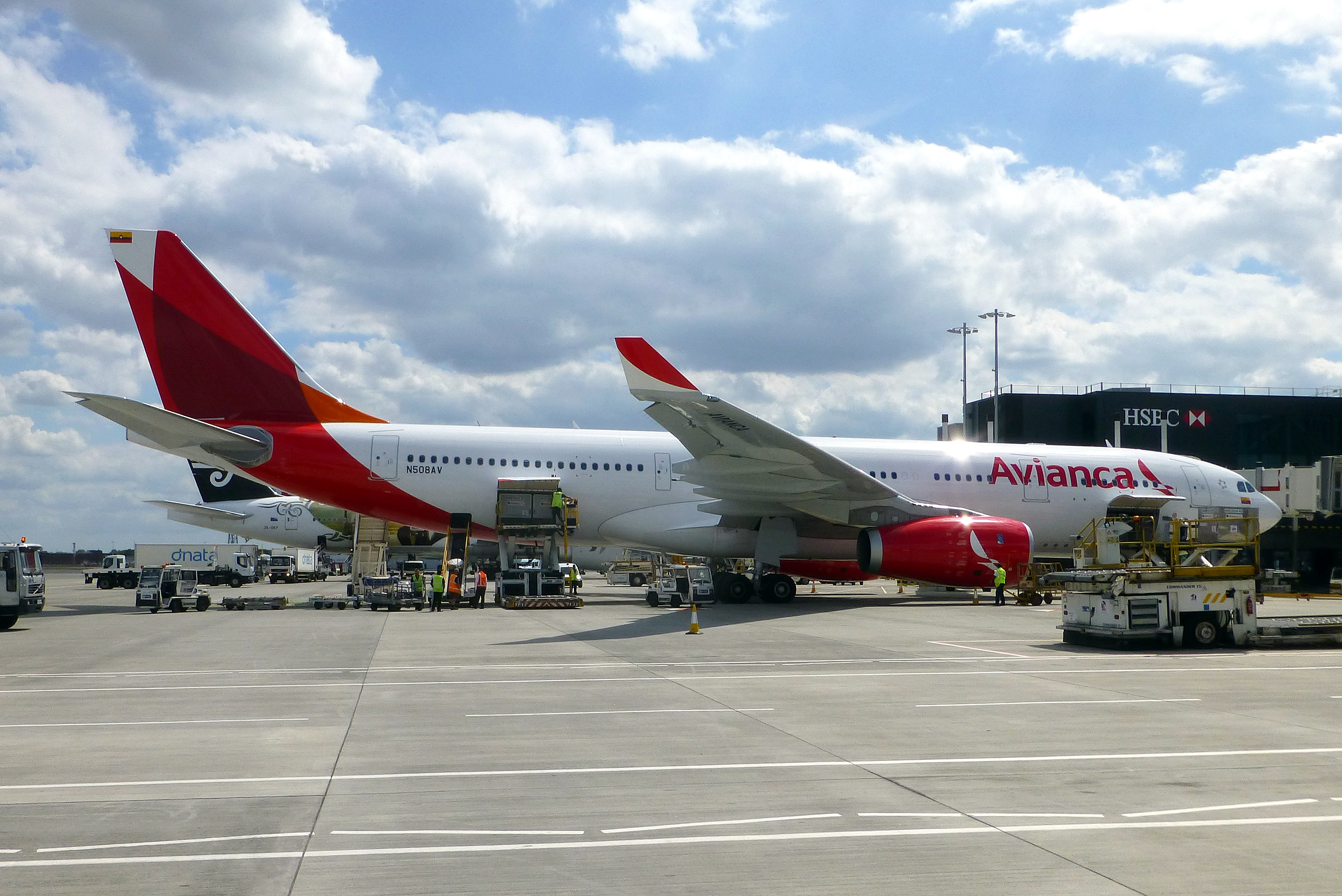 N508AV Airbus A330-200 Avianca Colombia having just parked on std 244.